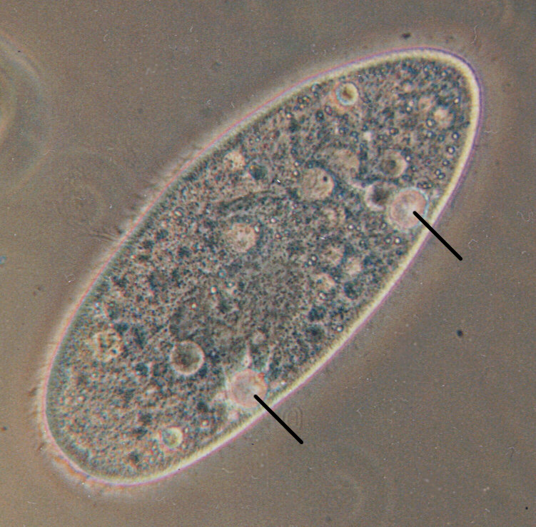 Paramecium aurelia with contractile vacuoles, lowe stroke: vacuole with canals well visible; upper stroke: vacuole with canals hardly visible